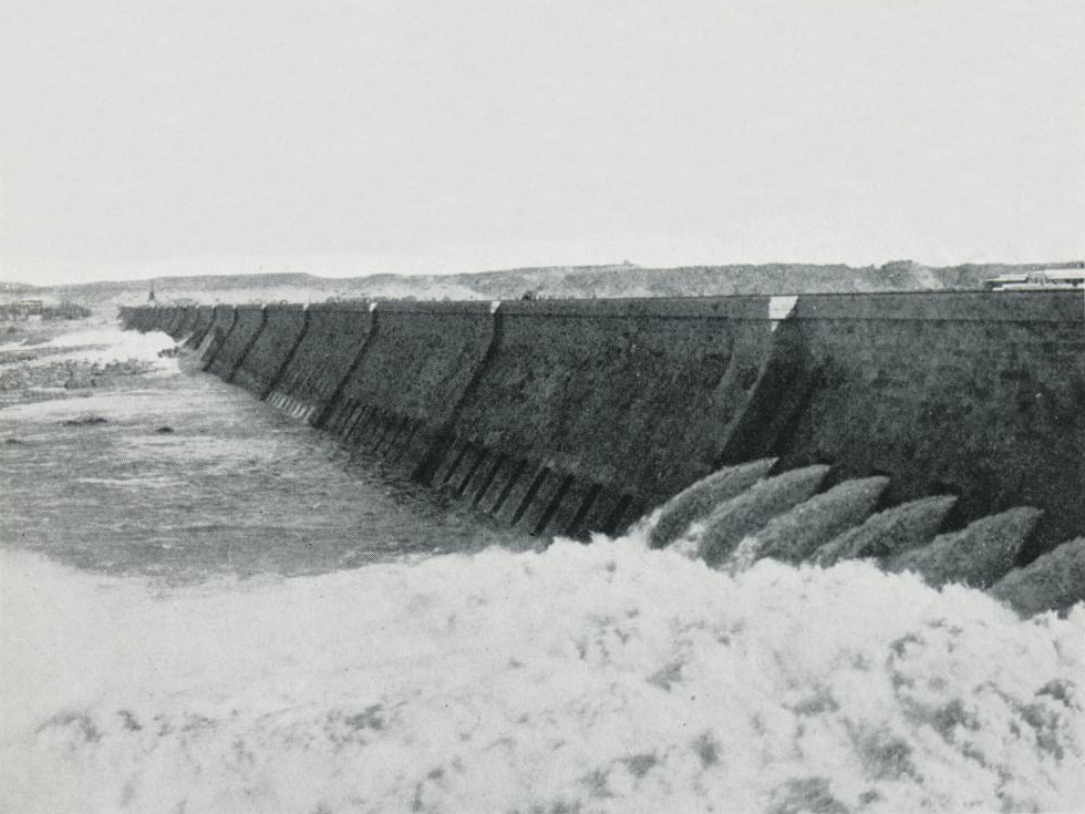 The barrage, a flow-control station, at Assouan.